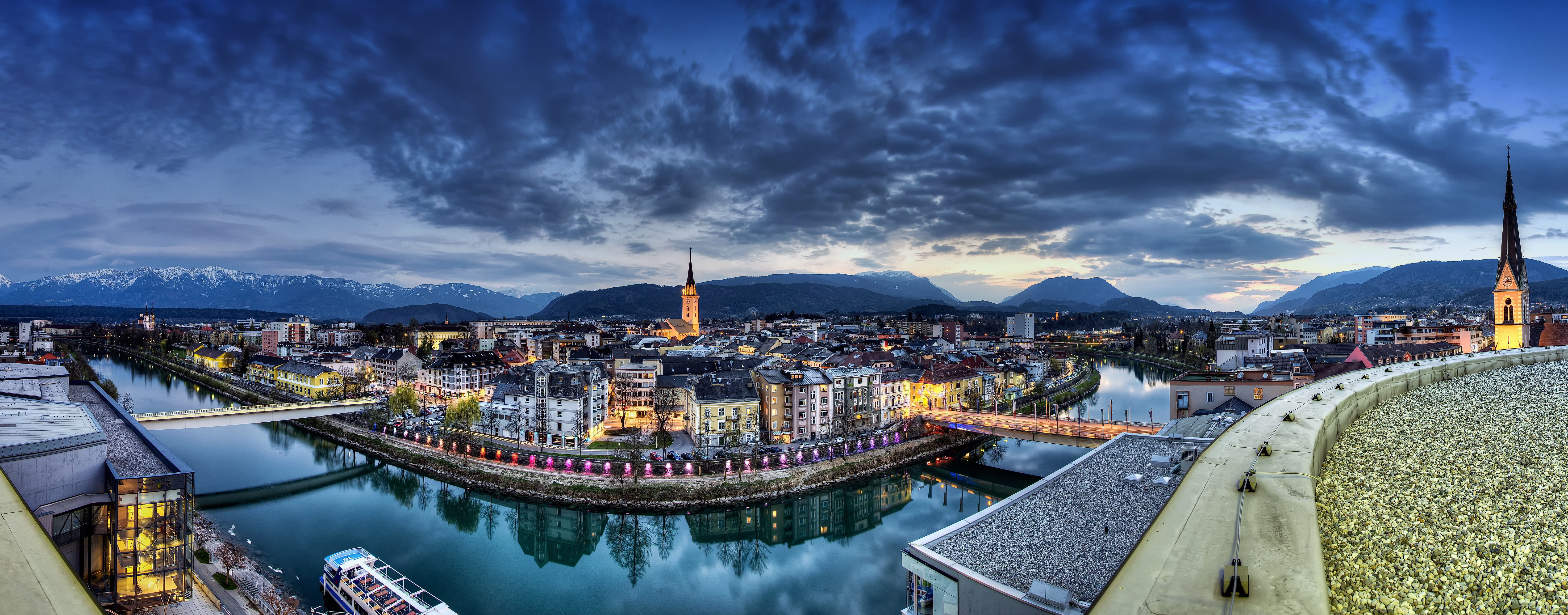 view from the roof of the hotel "Holiday Inn"